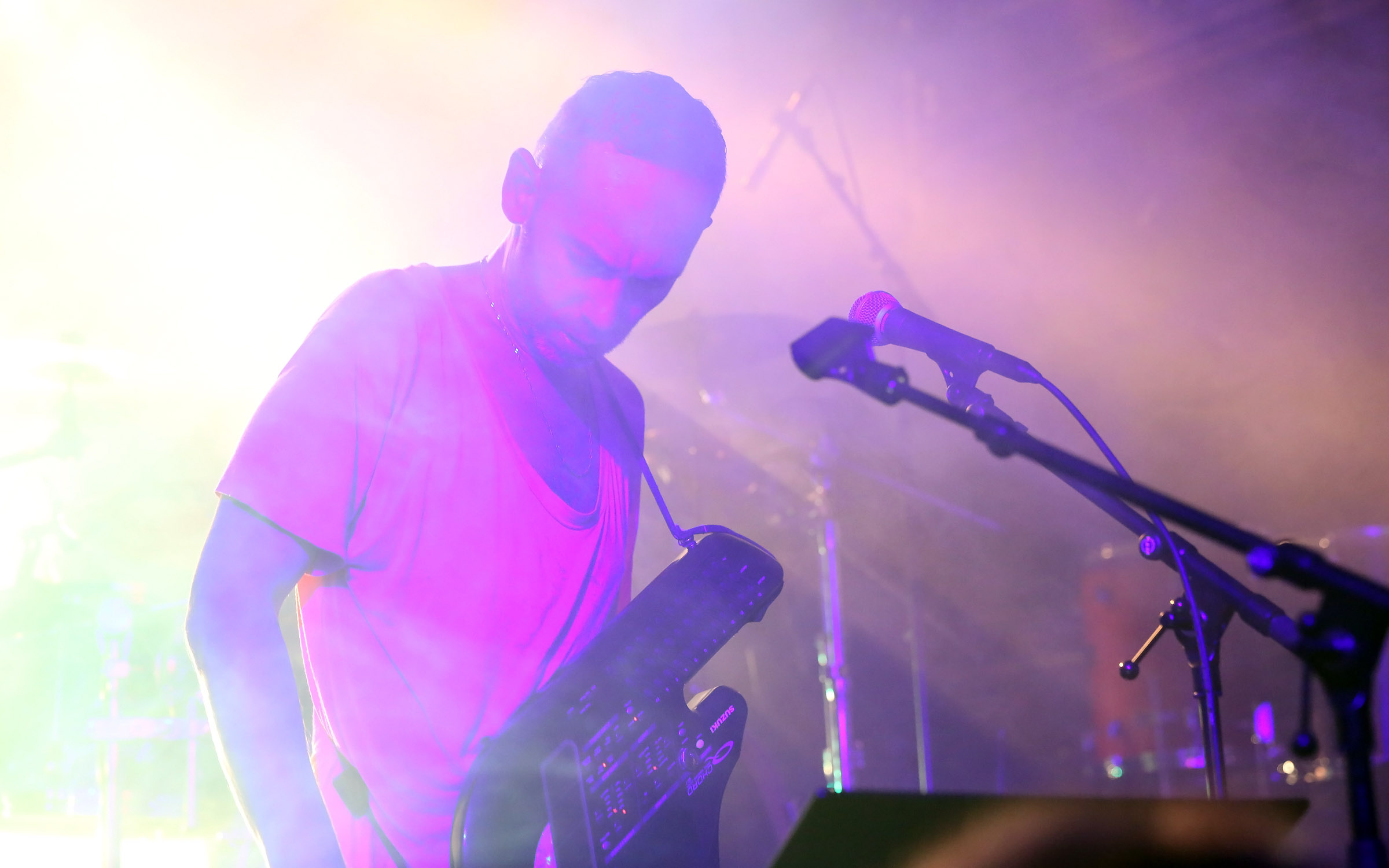 I-Wolf and The Chainreactions, concert at Fluc, Waves Vienna Music Festival & Conference 2013 in Vienna.